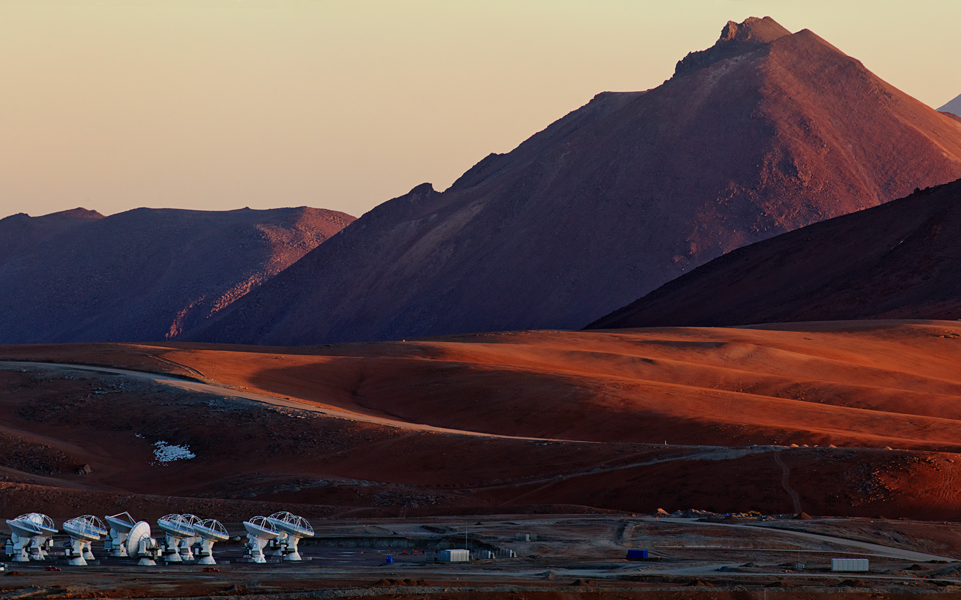 This panoramic view of the Chajnantor Plateau shows the site of the Atacama Large Millimeter/submillimeter Array (ALMA), taken from near the peak of Cerro Chico. Babak Tafreshi, an ESO Photo Ambassador, has succeeded in capturing the feeling of solitude experienced at the ALMA site, 5000 metres above sea level in the Chilean Andes. Light and shadow paint the landscape, enhancing the otherworldly appearance of the terrain. In the foreground of the image, clustered ALMA antennas look like a crowd of strange, robotic visitors to the plateau. When the telescope is completed in 2013, there will be a total of 66 such antennas in the array, operating together. ALMA is already revolutionising how astronomers study the Universe at millimetre and submillimetre wavelengths. Even with a partial array of antennas, ALMA is more powerful than any previous telescope at these wavelengths, giving astronomers an unprecedented capability to study the cool Universe — molecular gas and dust as well as the relic radiation of the Big Bang. ALMA studies the building blocks of stars, planetary systems, galaxies, and life itself. By providing scientists with detailed images of stars and planets being born in gas clouds near the Solar System, and detecting distant galaxies forming at the edge of the observable Universe, which we see as they were roughly ten billion years ago, it will let astronomers address some of the deepest questions of our cosmic origins. ALMA, an international astronomy facility, is a partnership of Europe, North America and East Asia in cooperation with the Republic of Chile. ALMA construction and operations are led on behalf of Europe by ESO, on behalf of North America by the National Radio Astronomy Observatory (NRAO), and on behalf of East Asia by the National Astronomical Observatory of Japan (NAOJ). The Joint ALMA Observatory (JAO) provides the unified leadership and management of the construction, commissioning and operation of ALMA.